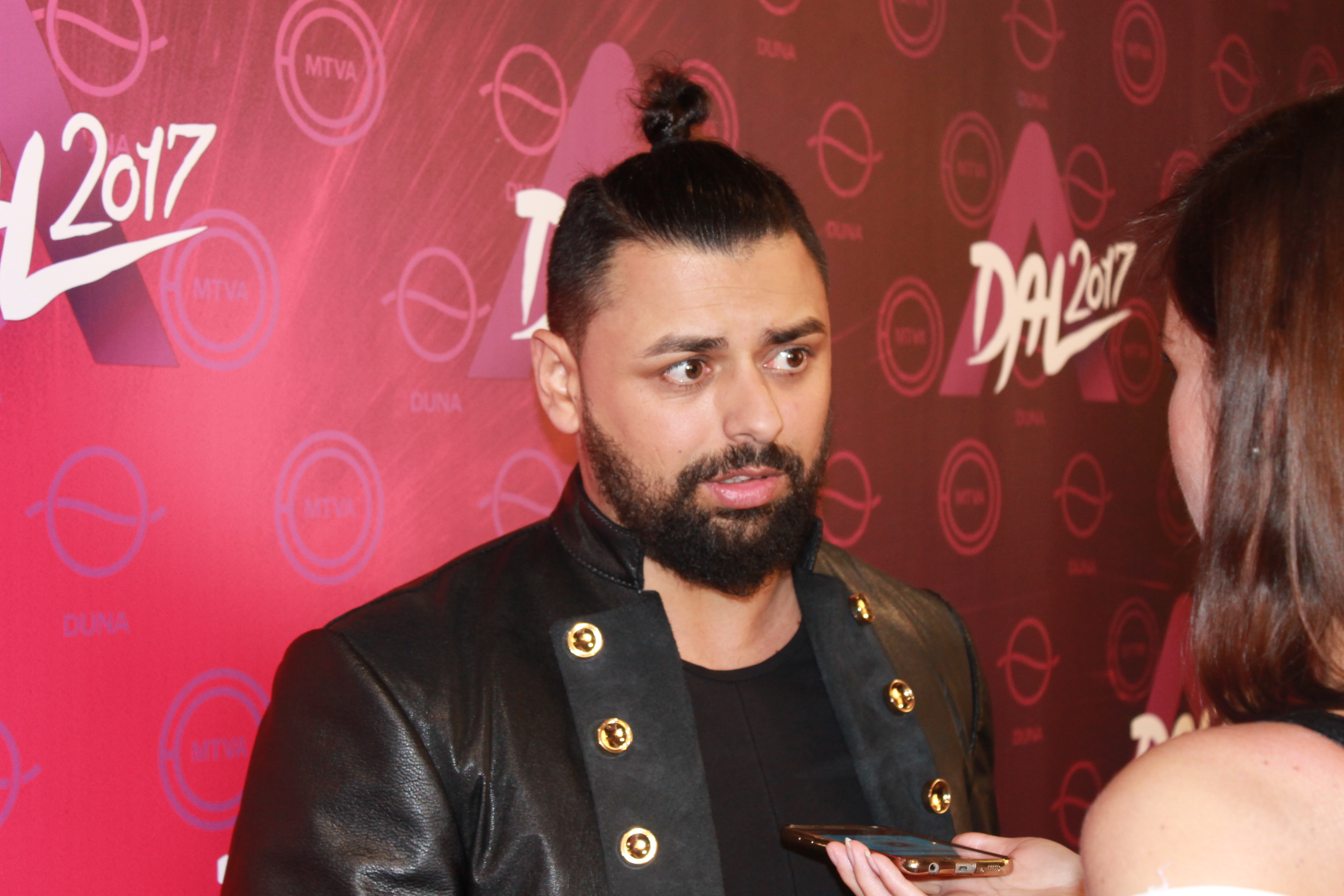 A Dal 2017 participant: Joci Pápai